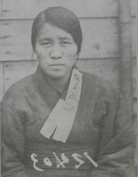 Heo Jong-suk, Korean independence movement and feminists